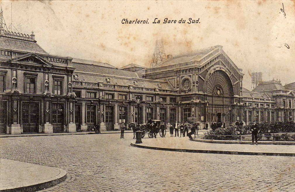 Charleroi (Belgium) - South railway station early 1900's.